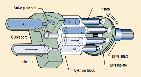 Bomba de pistones del sistema hidráulico.